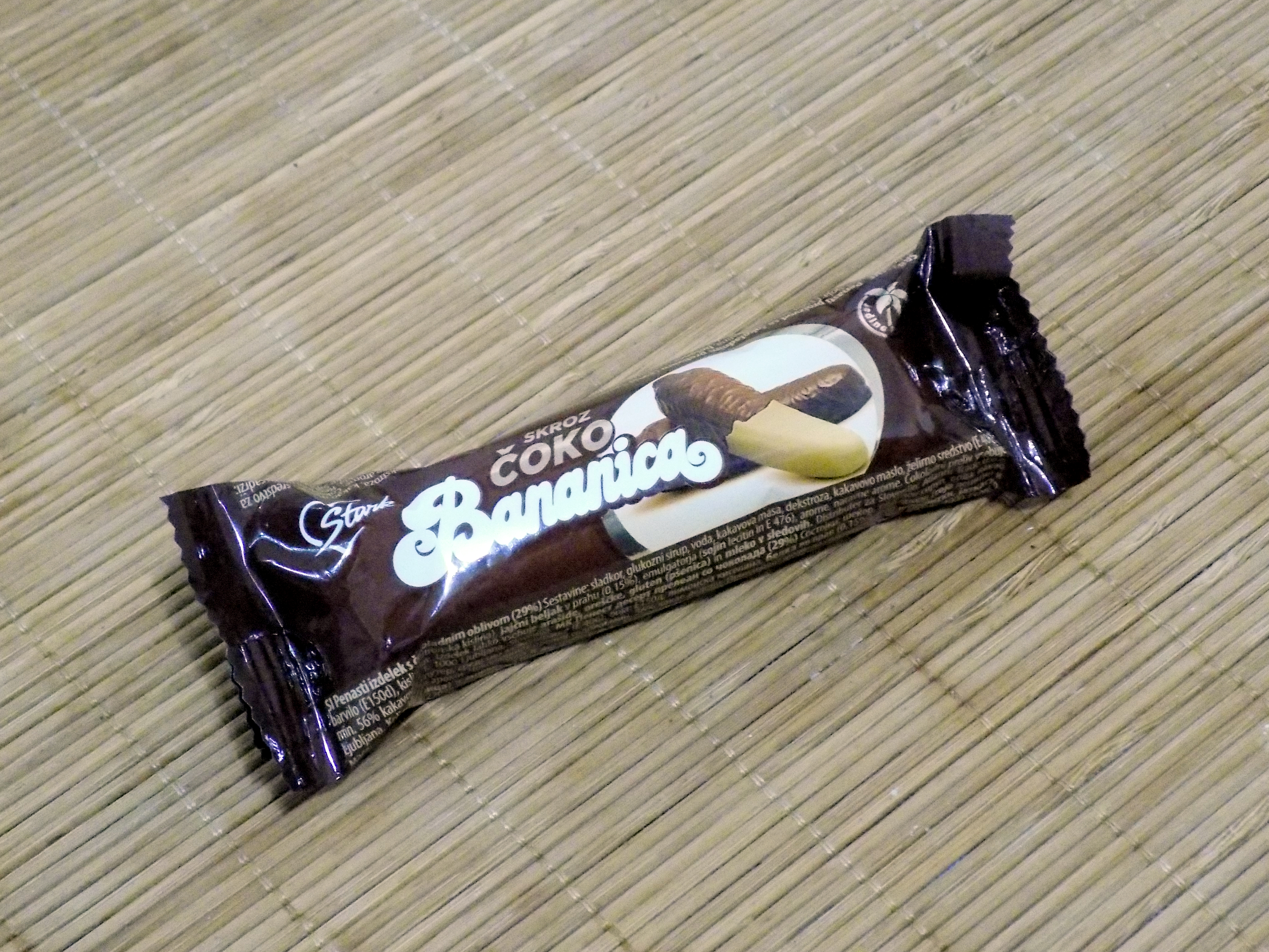 "Bananica" (Cream banana), Serbian brand since 1938. - new product, "Skroz čoko Bananica" ("Whole Chocolate Banana")